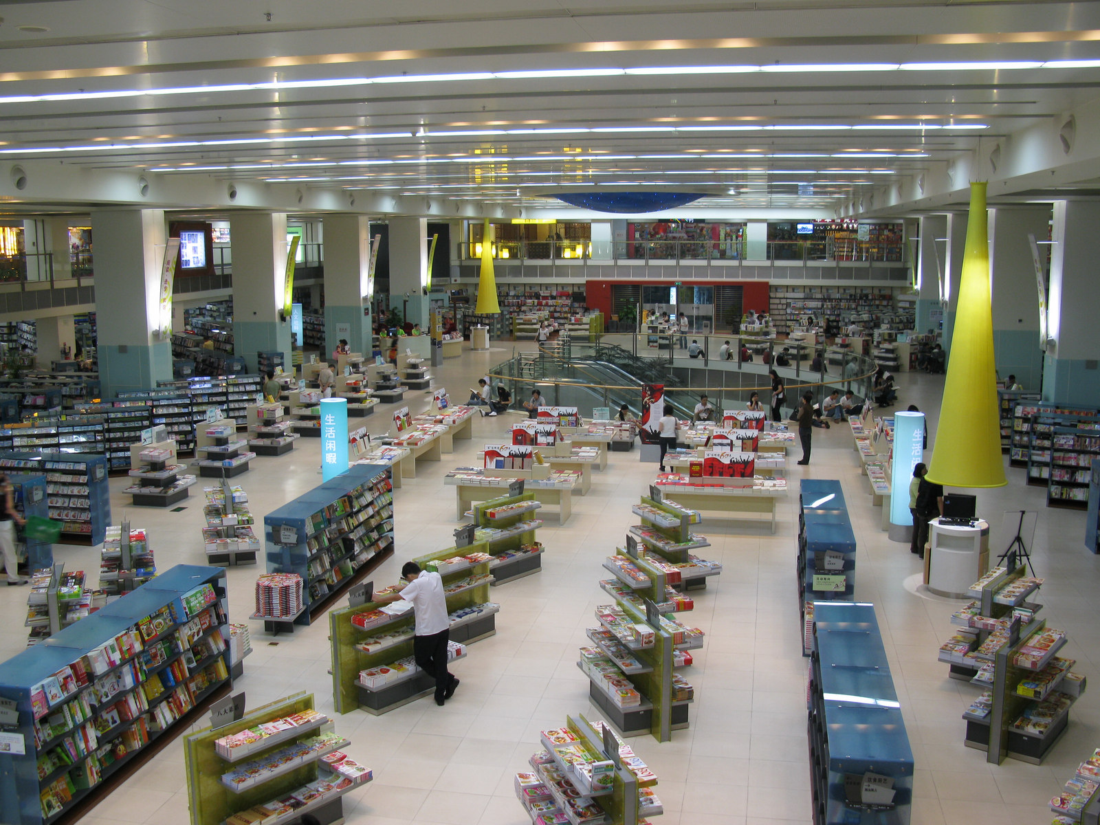 Leisure Life Bookstore located at Northern Zone of Shenzhen Book City